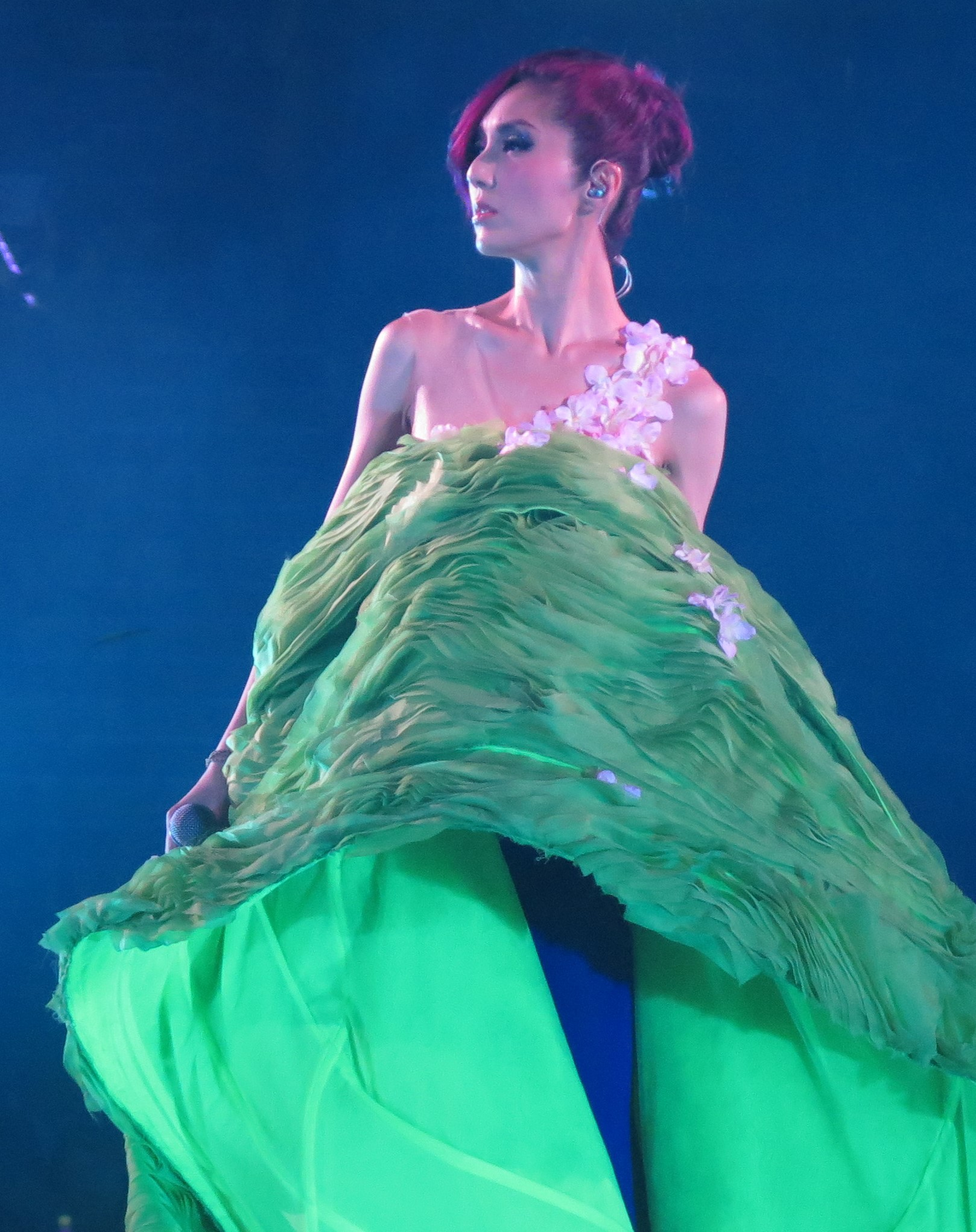 Miriam Yeung Let's Begin Live 2015